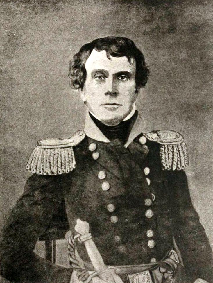 Bvt. Maj. Gen. Roger ap Catesby Jones (1789-1852), Adjutant General of the United States Army (1825-1852) (not to be confused with his son, Brig. Gen. Roger ap Roger Jones, who served as Inspector General of the US Army). Image from: L. H. Jones, Captain Roger Jones, of London and Virginia, some of his Antecedents and Descendants (Albany, NY: Joel Munsell's Sons, 1891), following page 54.